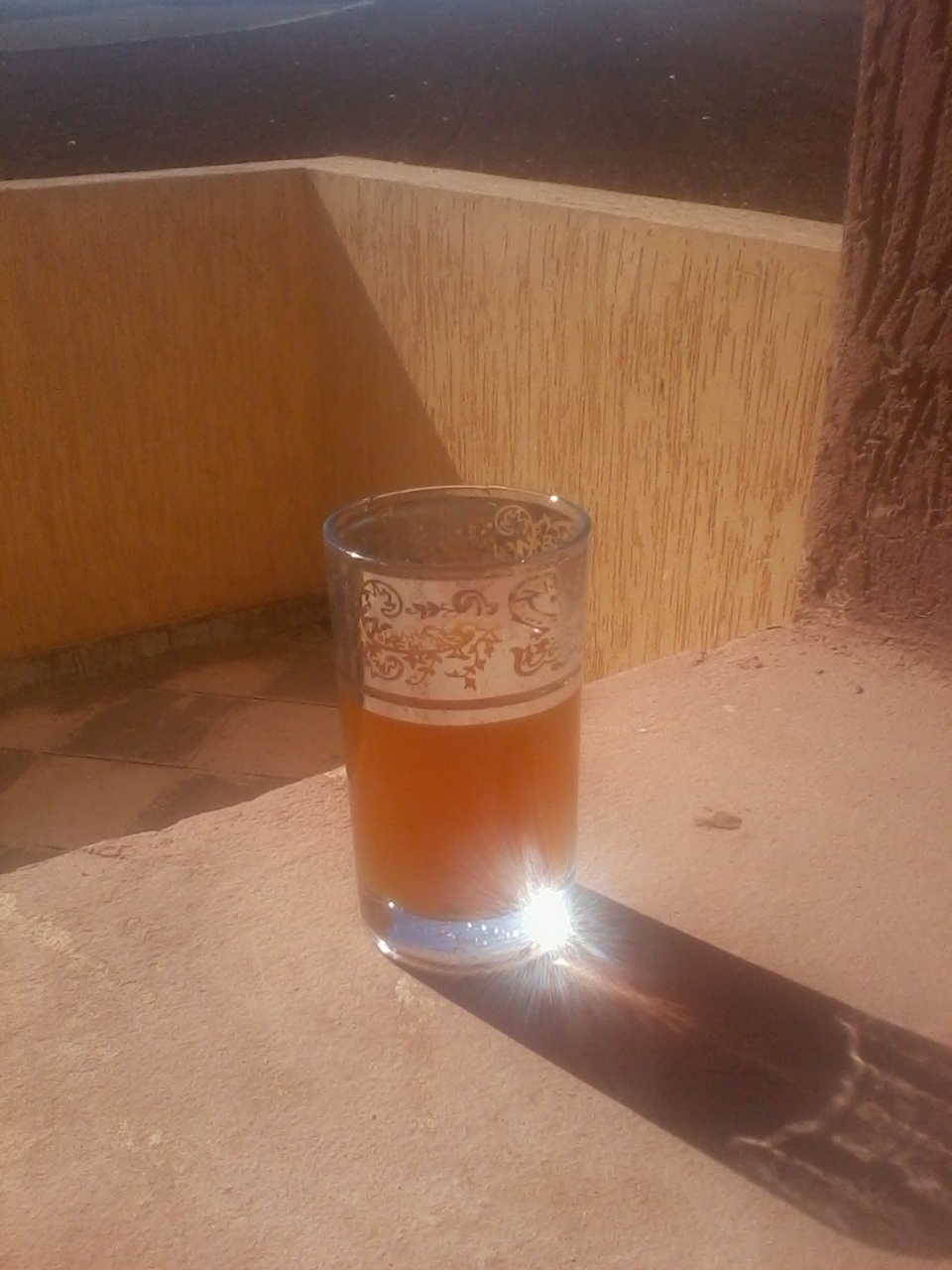 MY CUP OF TEA_sunny days